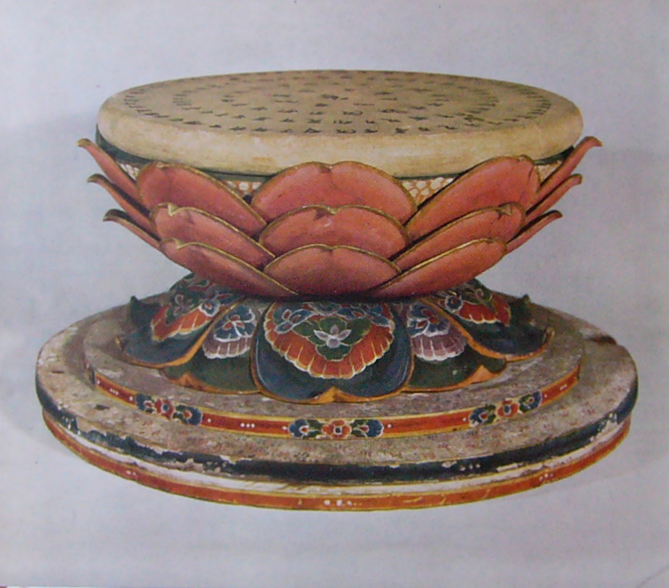 Sacred Lotus Pedestral enclosed in Wood statue of Amidaba in Phoenix Hall in UJI, Kyoto, Japan. Wood Colored, diameter 37.6cm. height 19.7cm, Sanscrit Mantra is written on the upper disk 11th century, Heian Period, Japan.